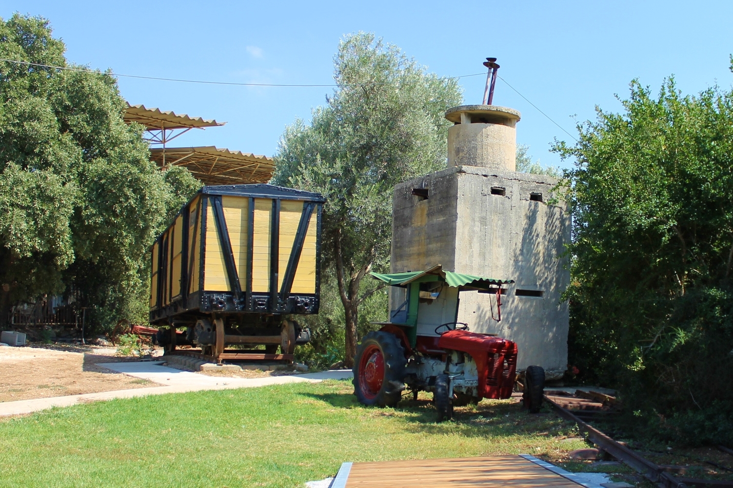 A railway car from the British Mandate period, at the Museum of Pioneer Settlement in Kibbutz Yifat in the Jezreel Valley